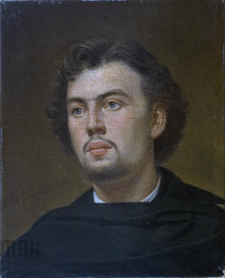 Portrait of Adam Chmielewski